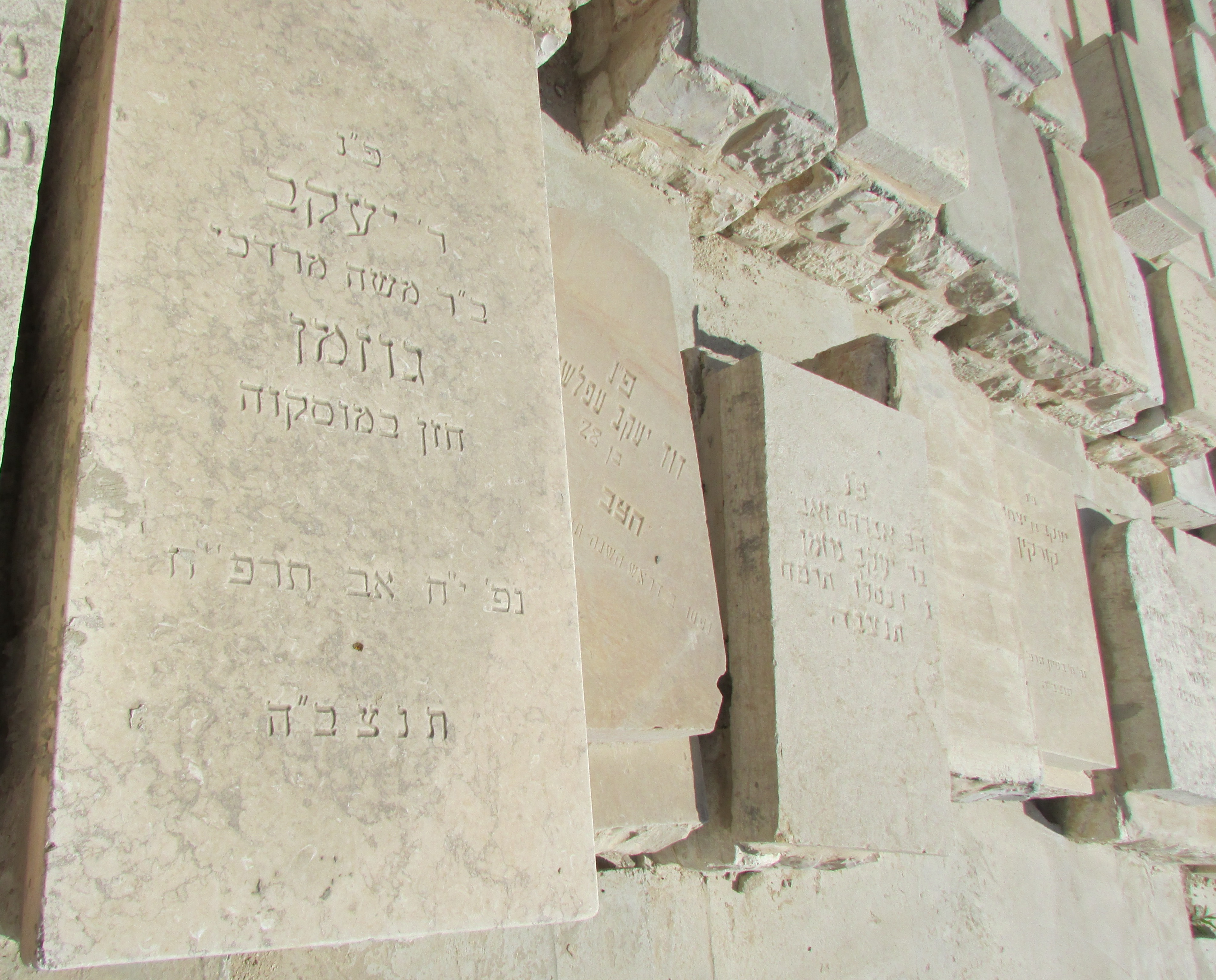 Grave stones of the Guzman family in the Har Hazeitim cemetary. Father and son